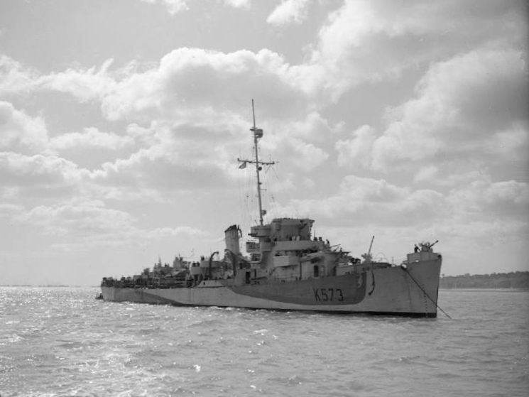 IWM caption : HMS STAYNER, Captain Class Frigate and anti-E-Boat warship at anchor. She helped patrol the beaches during the Normandy landings on and after D Day.